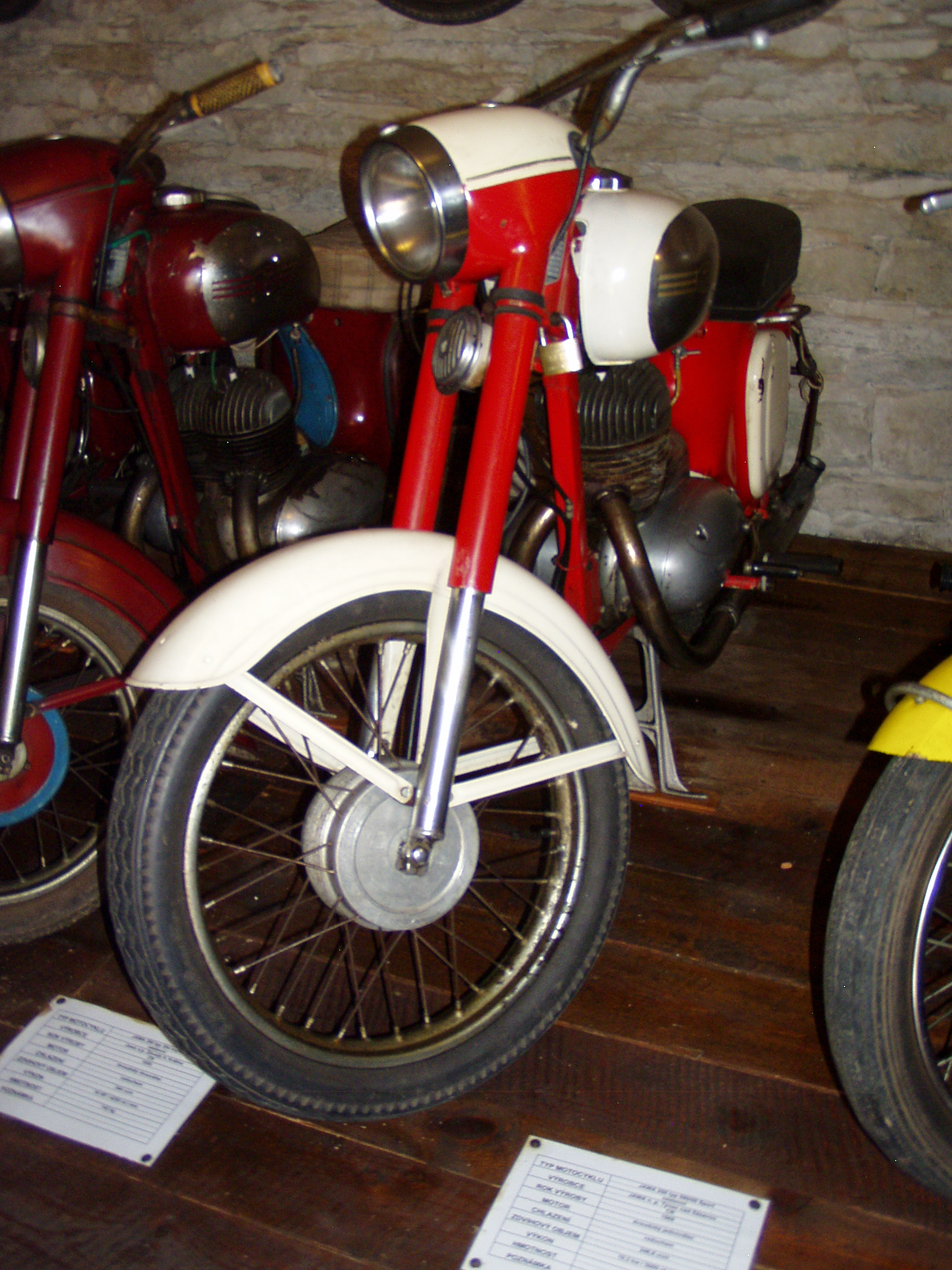 Jawa 250/590 Sport (1968)